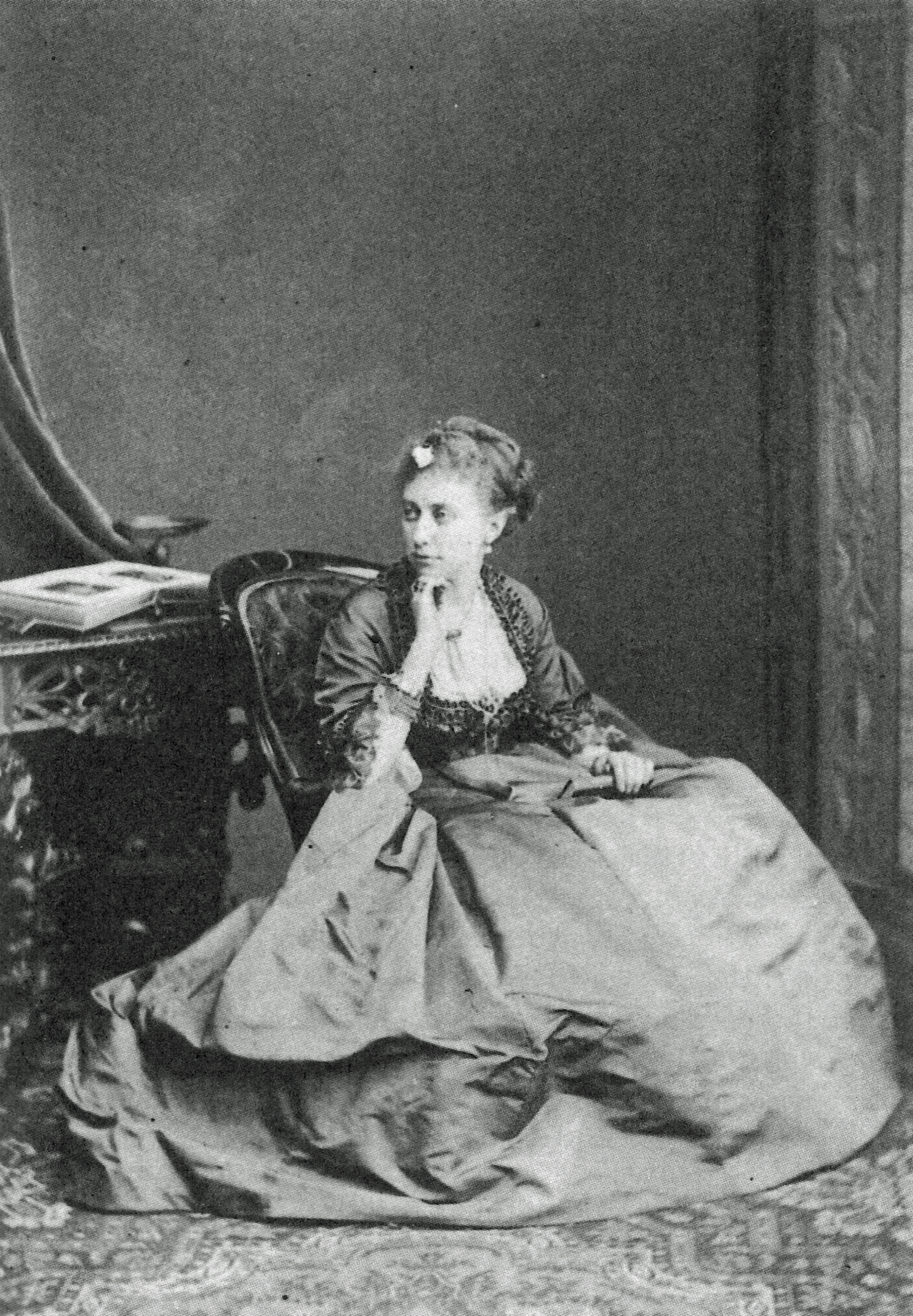 Marie Linder (1840-1870), Finnish author.